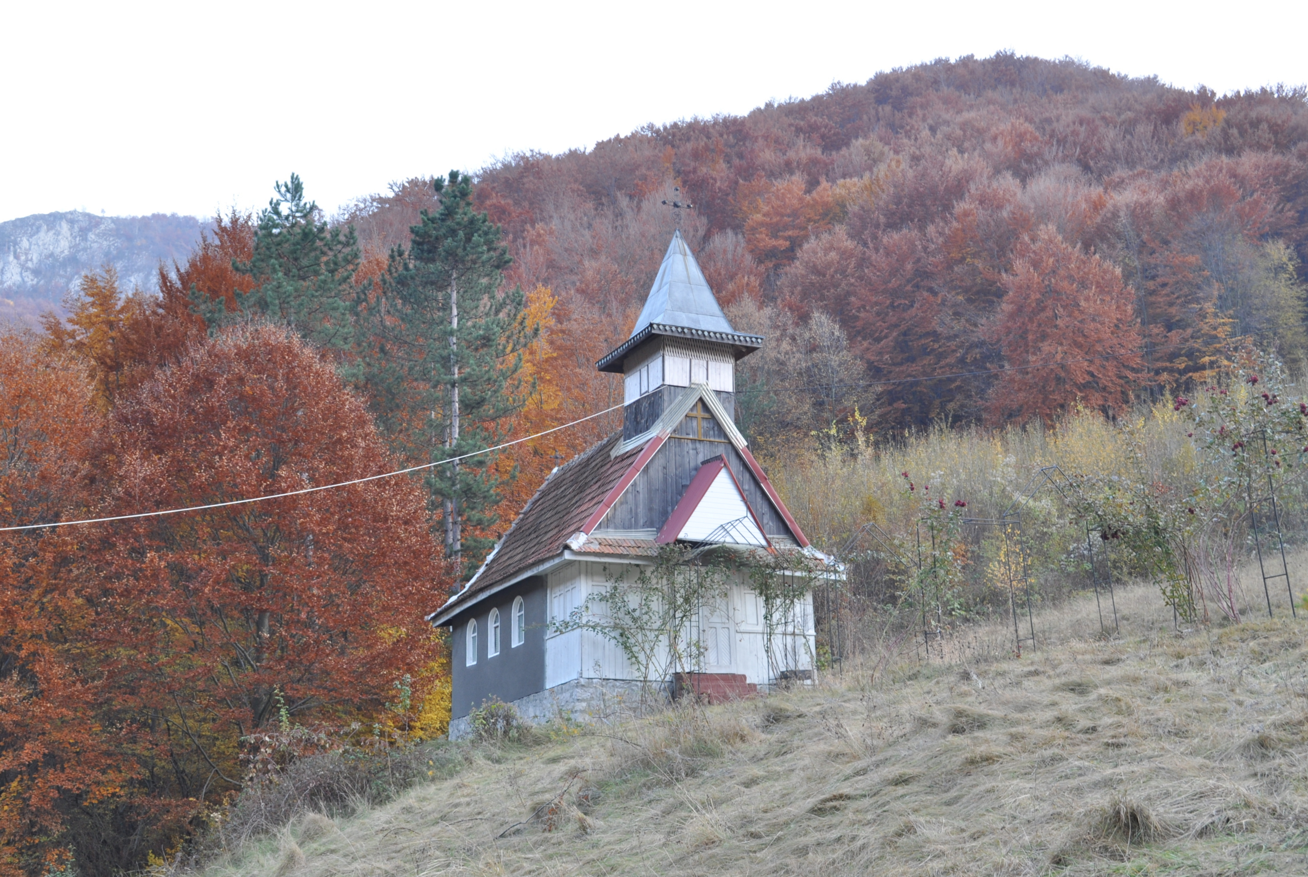 Galda de Sus, Alba county, Romania